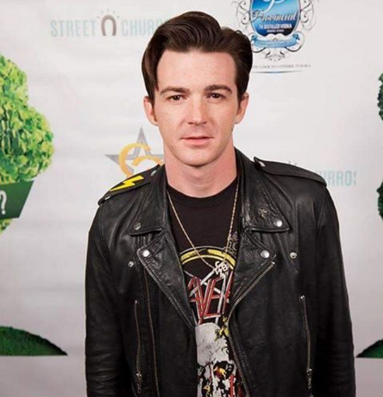 Drake Bell in the event Celebrity Connected.